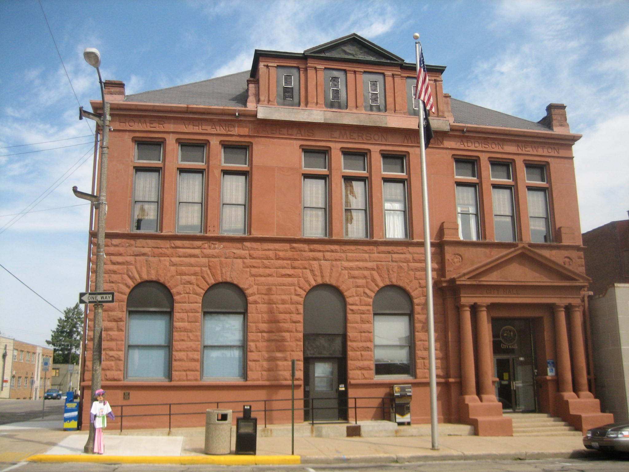 Freeport City Hall Building, Freeport, Illinois, USA.